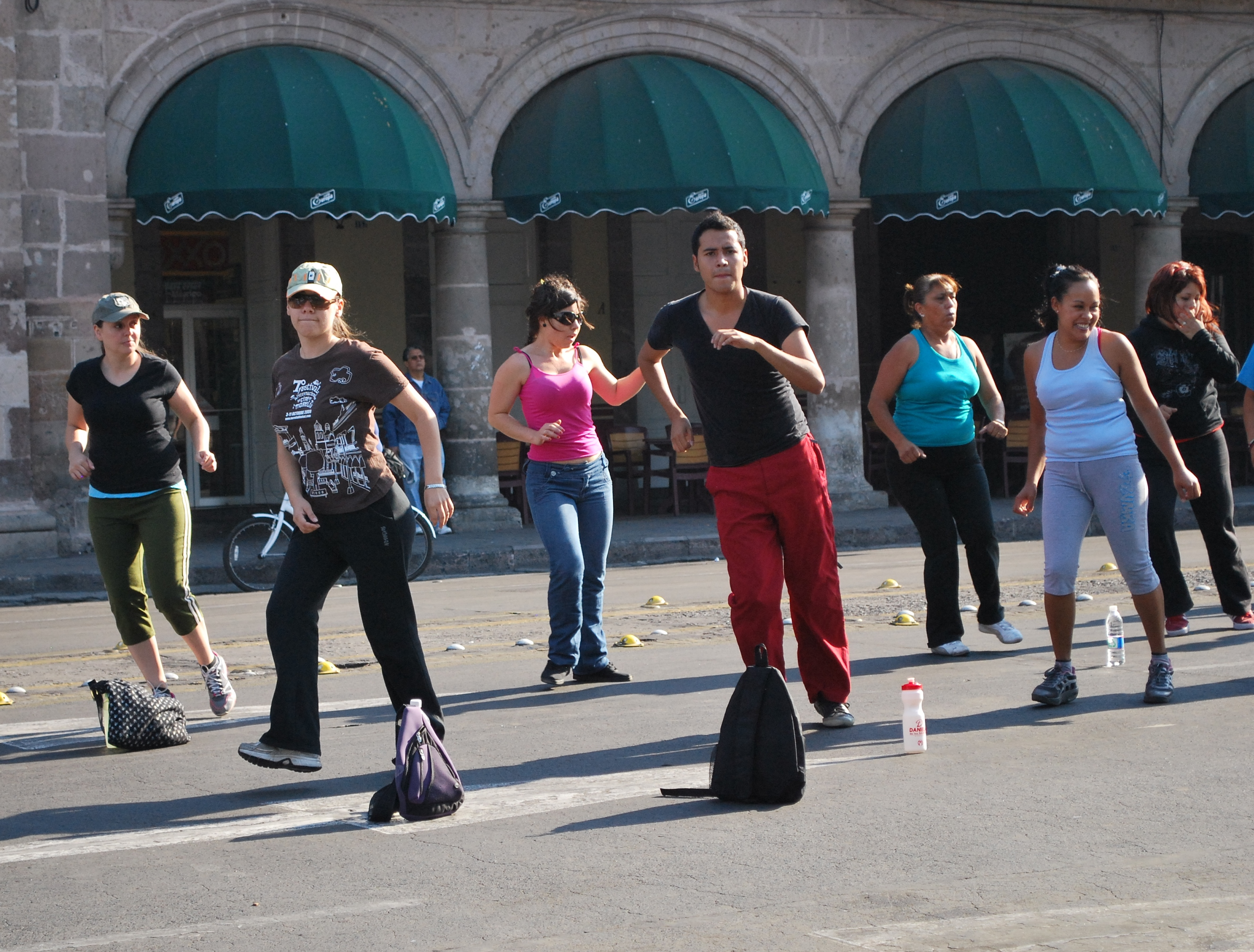 People doing aerobics on the main street in front of the Cathedral in Morelia, Mexico